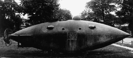 Intelligent Whale -- from USN CHINFO